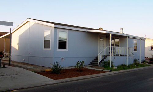 A mobile home (built 2004).